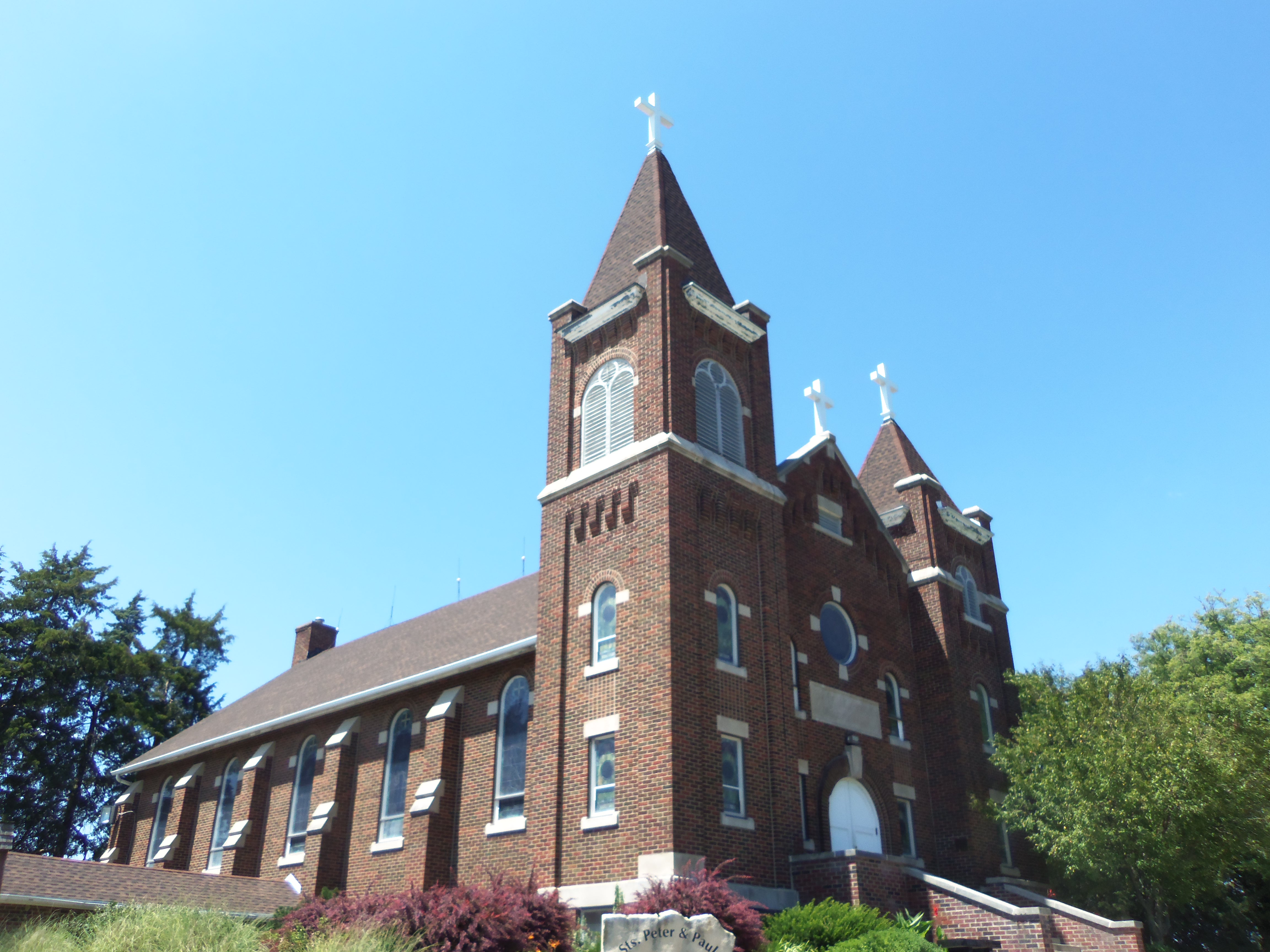 Saints Peter and Paul Chapel in rural Solon, Iowa. It is a former Catholic church that is listed on the National Register of Historic Places.